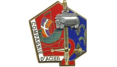 Badge of the 2nd Company of the 24th Infantry Regiment (France).